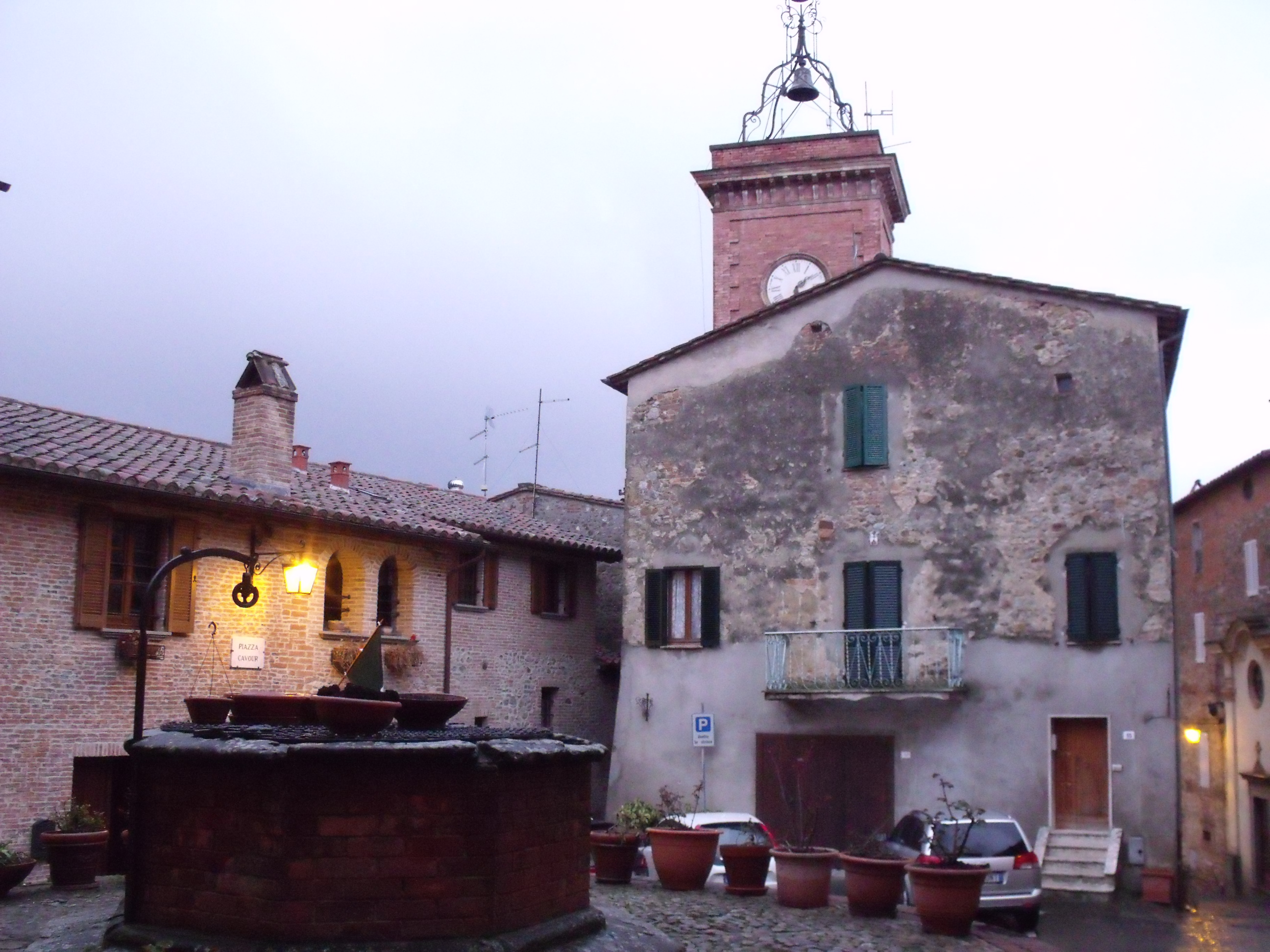 Piazza Cavour in Monteleone d'Orvieto, Umbria, Italy